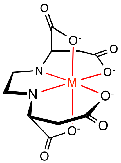 revised (previous one is bad) image of M-edds complex